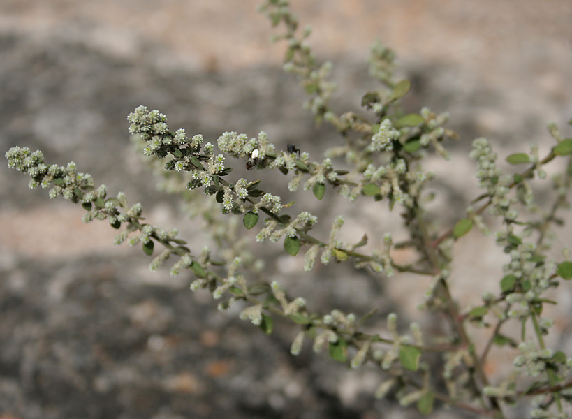 Astmabayata, Bhadram, Bhadrika, Cherula, Cherupula, Bilihindi gida, Choti-bui or Gorakhganja Aerva lanata in Bhongir Fort, Andhra Pradesh, India.